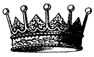 The crown of an Earl (Jarl)